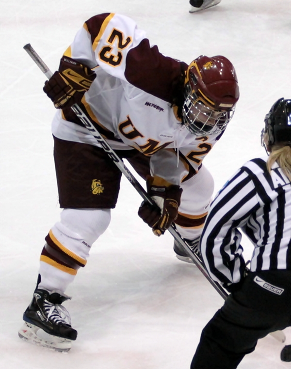 Saara Tuominen, senior captain of the University of Minnesota Duluth Bulldogs women's hockey team, in a game against the Wisconsin Badgers at the DECC in Duluth on Jan. 17, 2010